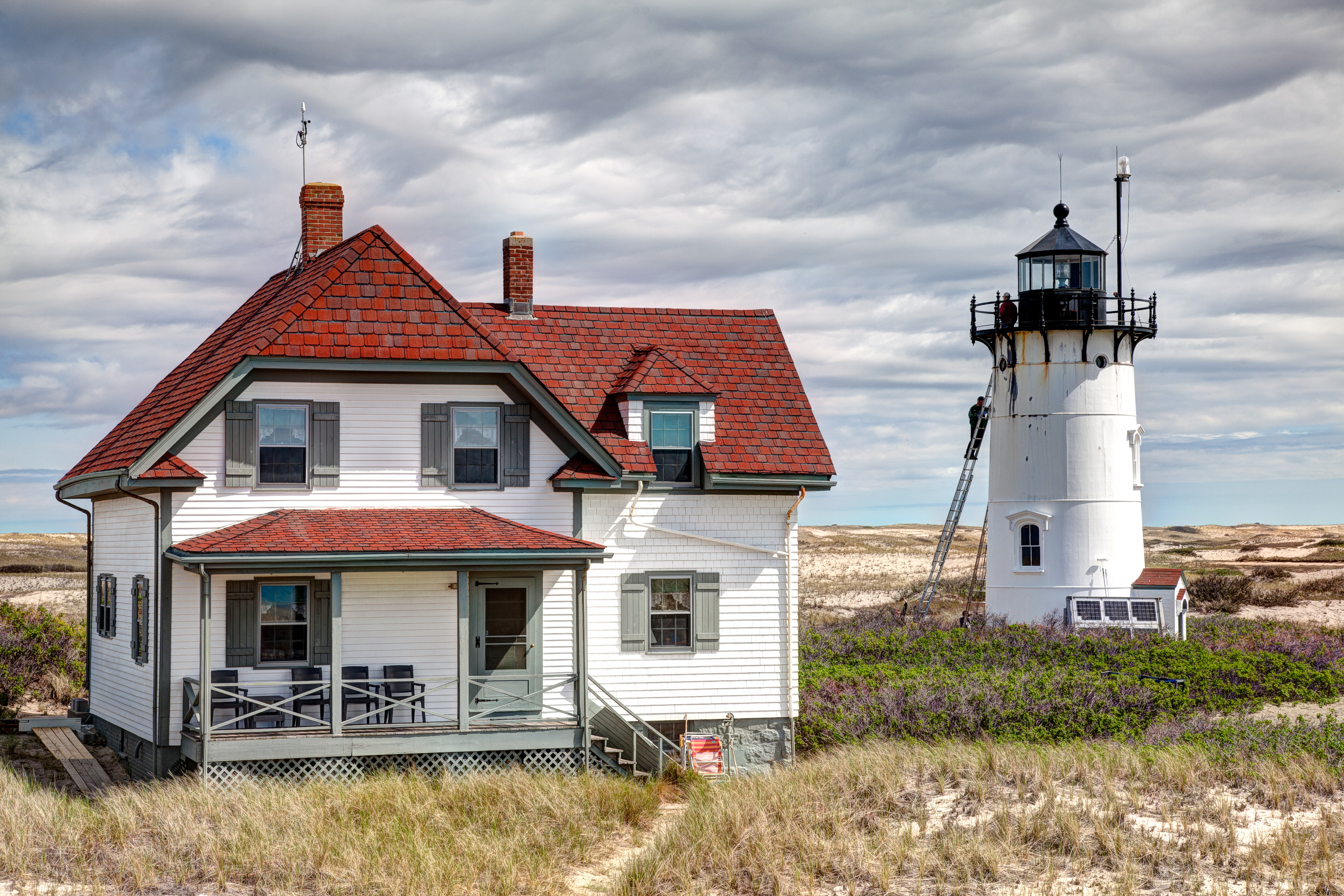 Volunteers from the American Lighthouse Foundation apply a fresh coat of white paint to the Race Point Lighthouse in 2012.